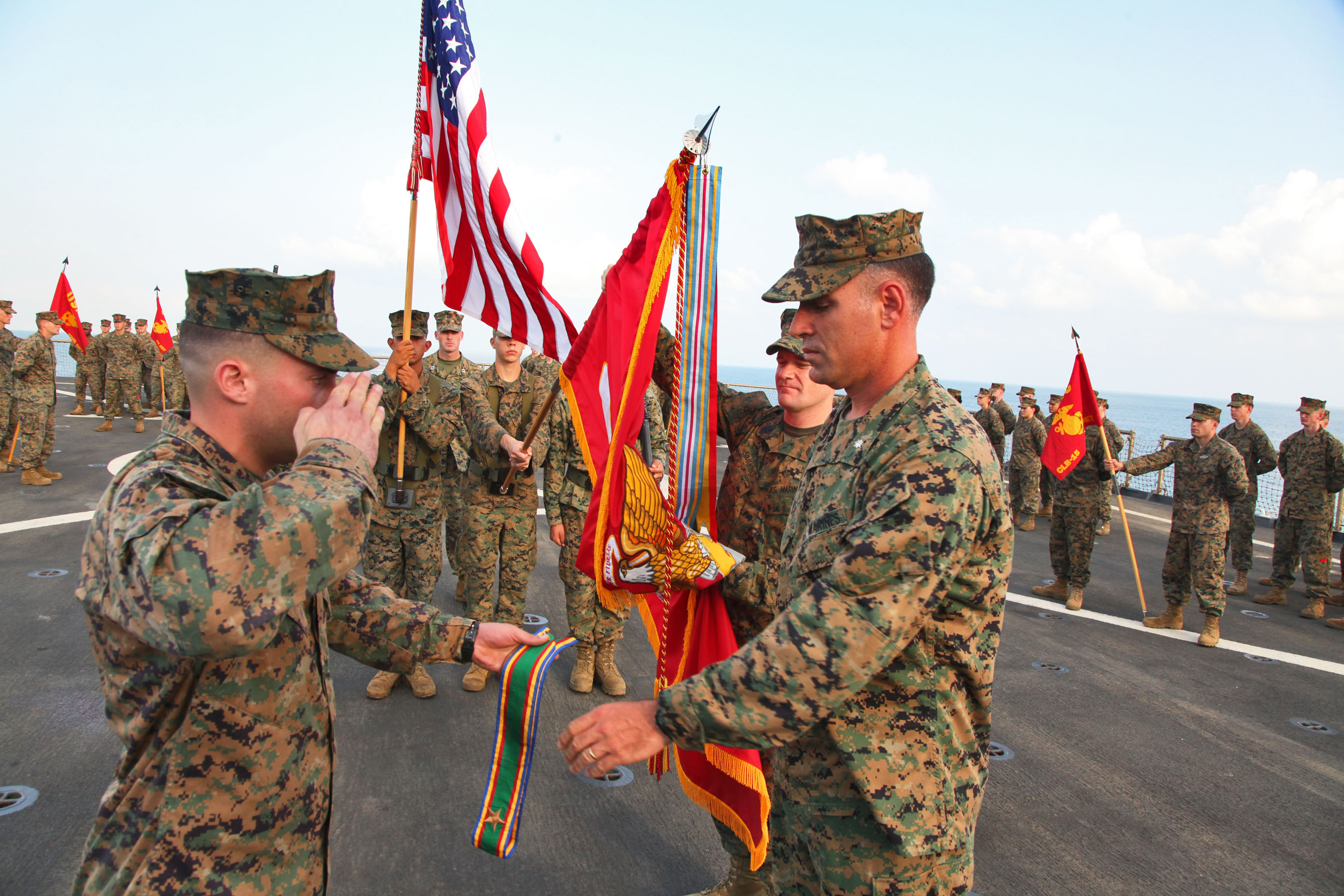 CLB-15 Colors Rededication Ceremony for the 25th Anniversary of the battalion. Conducted on 15 Oct 2012 during the WESTPAC 2012-02 deployment on the flight deck of the USS RUSHMORE enroute to Darwin, Australia.